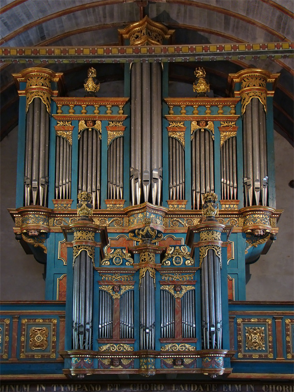 Saint-Germain Church, Pleyben, Finistère, Bretagne, France. Dallam organ.